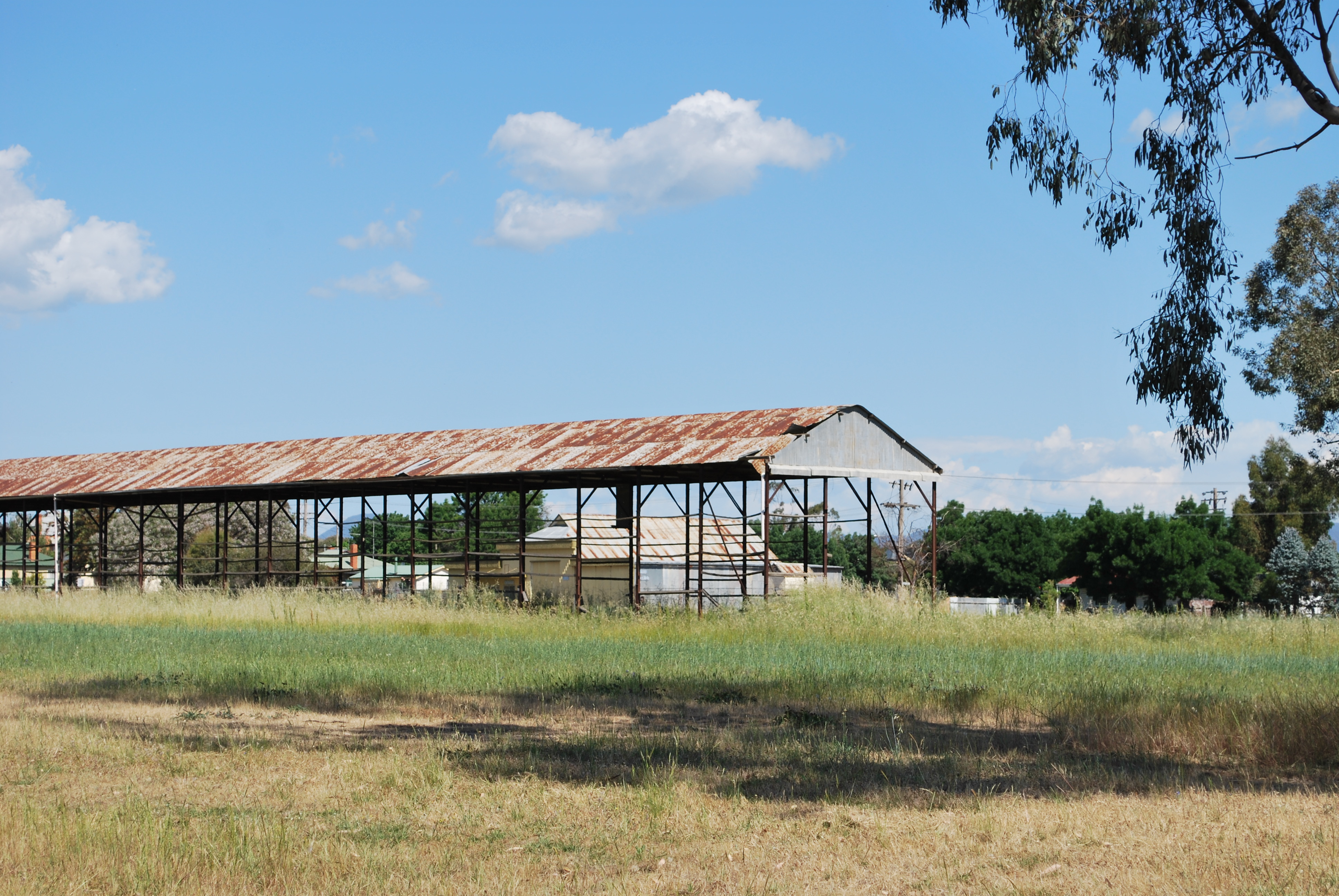 Railway yards at Holbrook, New South Wales, no longer in use.